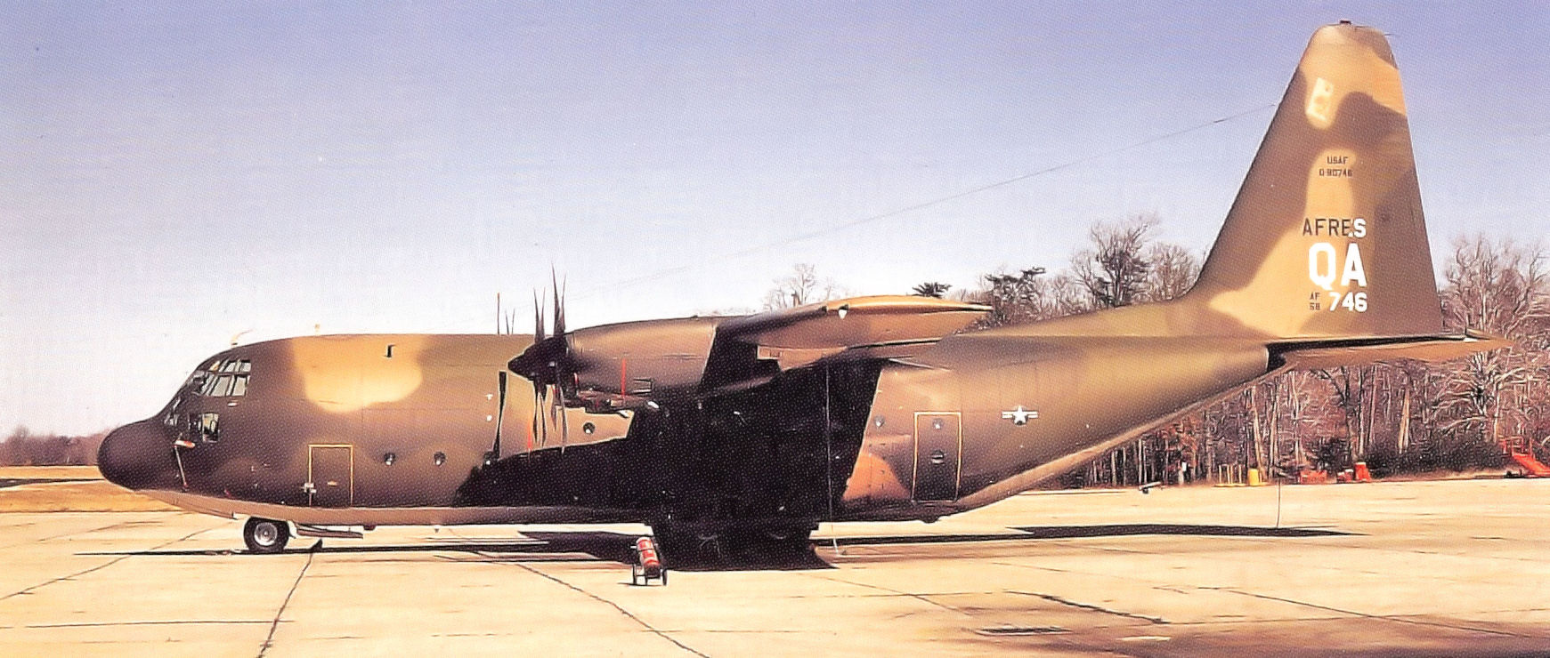 Lockheed C-130B-LM Hercules 58-0746 909th Tactical Airlift Group Andrews Air Force Base, Maryland. Retired to AMARC as CF0131 Jul 16, 1993. Sold to Botswana AF as OM-2